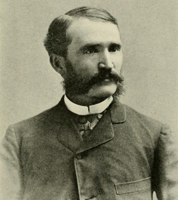 Thomas M. Ferrell (New Jersey Congressman)